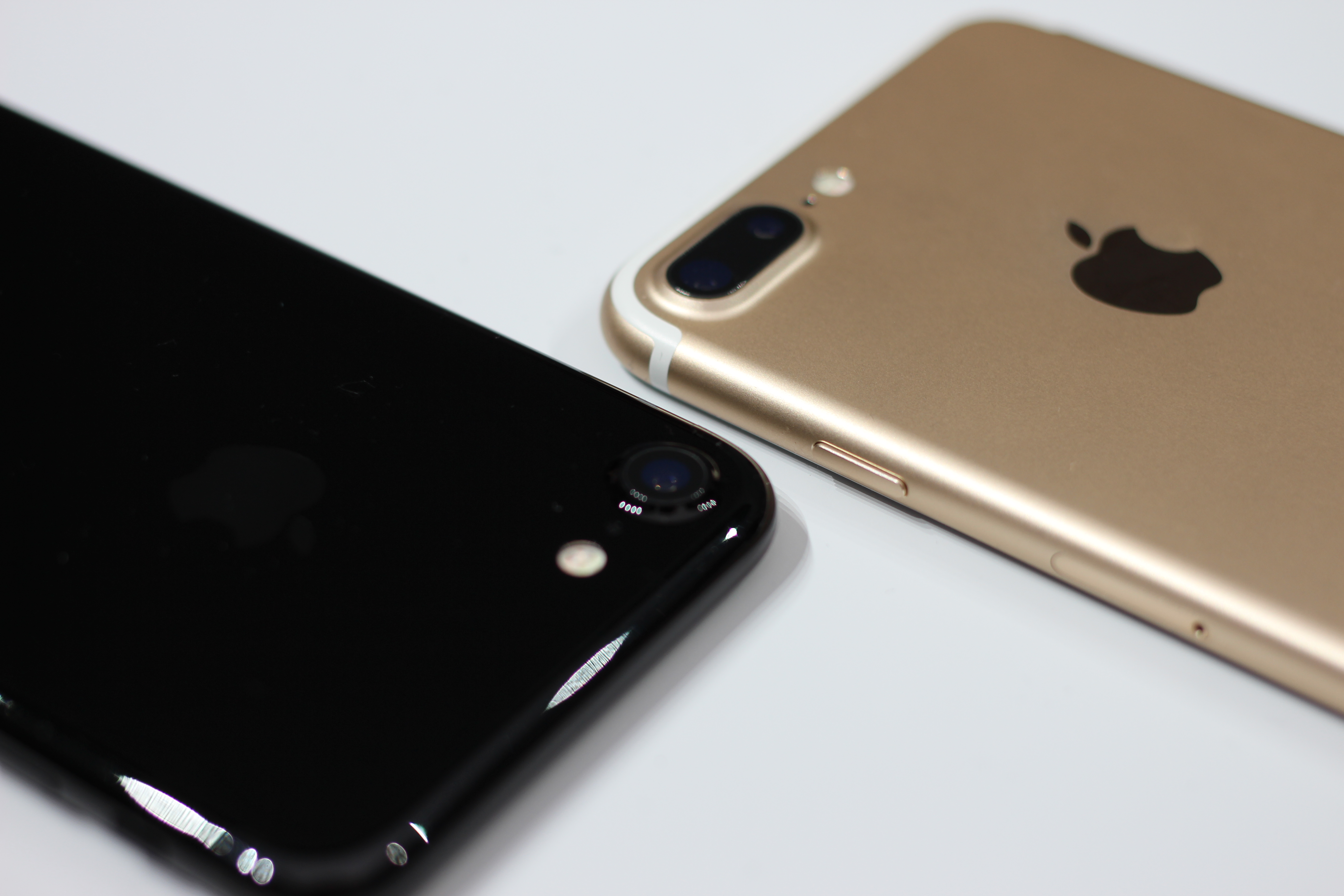 Photo of an Apple iPhone 7 in "jet black" and an Apple iPhone 7 Plus in "gold".